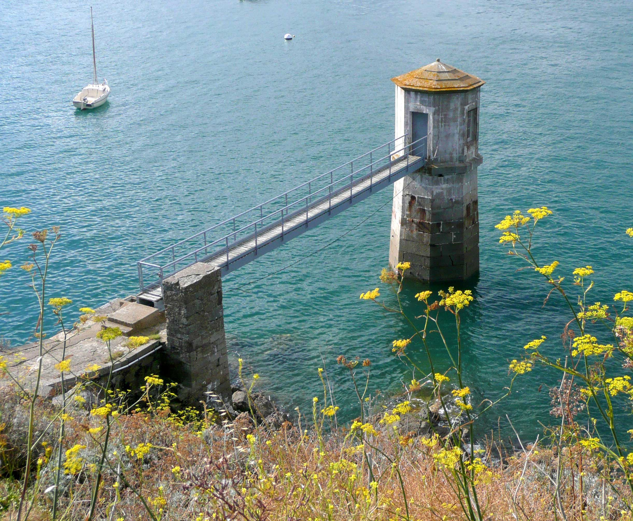 Tide gauge station in the Rance River (Saint Malo, France). Build in 1844. Now used by the Rance tidal power plant